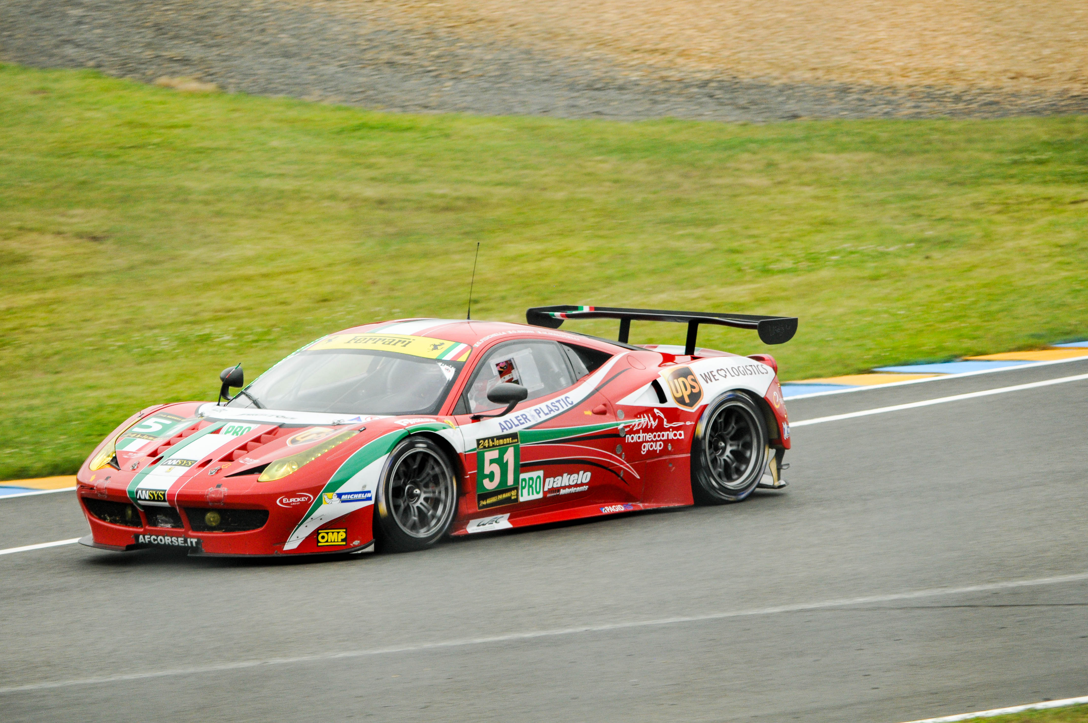 Le Mans 2013 (140 of 631)